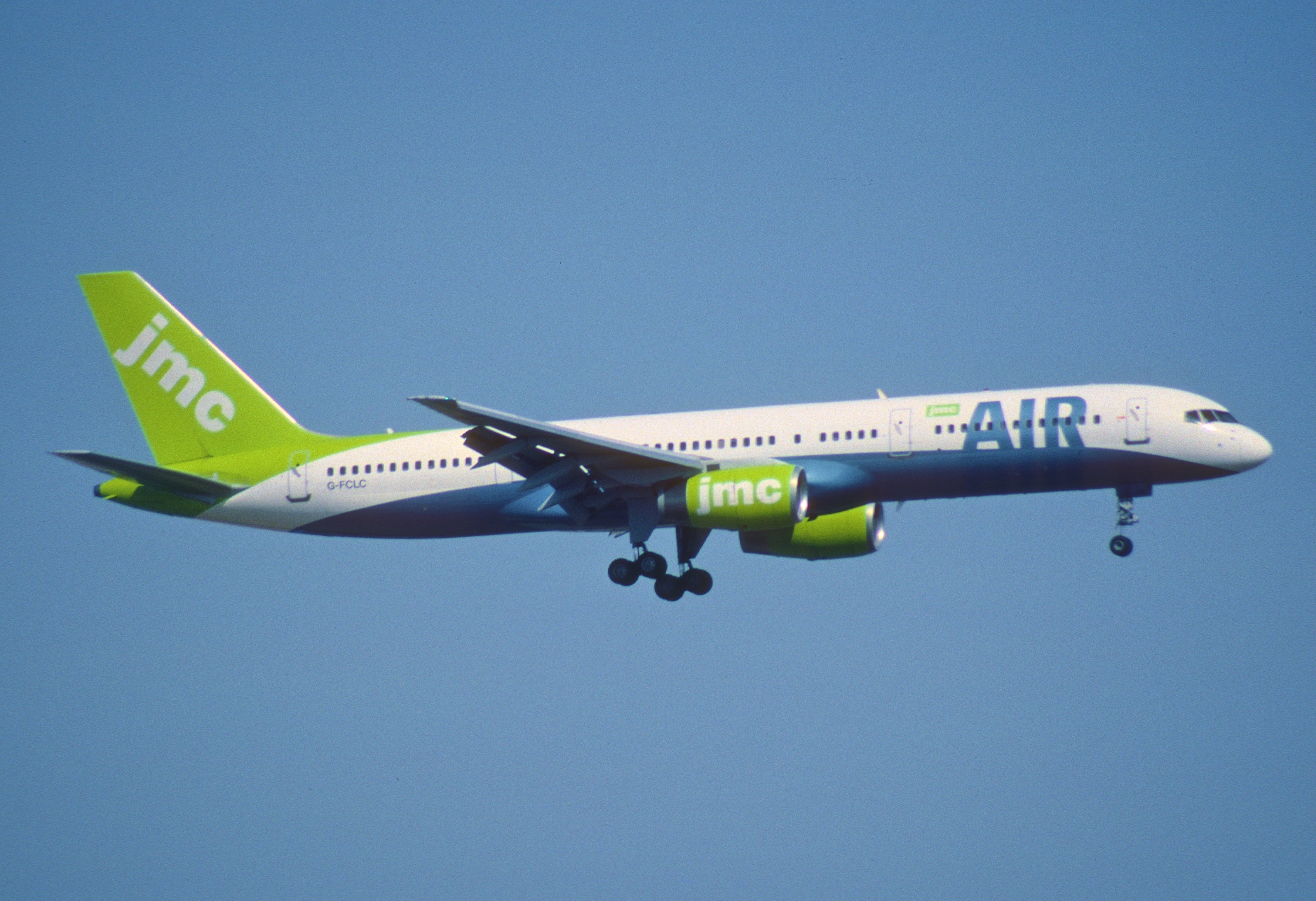 188af - JMC Air Boeing 757-28A; G-FCLC@PMI;20.08.2002